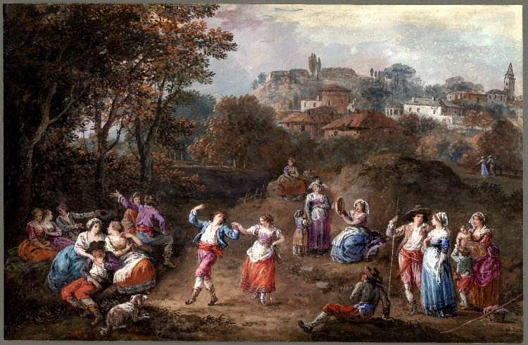 Drawing by Francesco Zuccarelli. n.d. Bodycolour. 273 mm x 416 mm. British Museum.